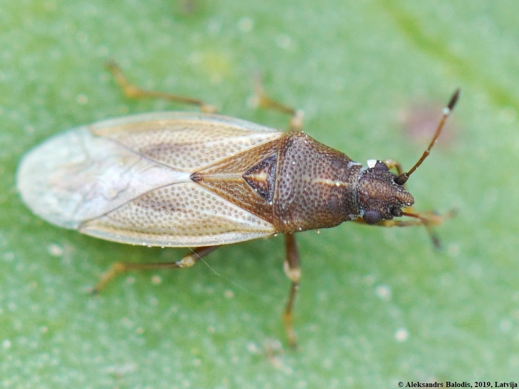 Cymus glandicolor